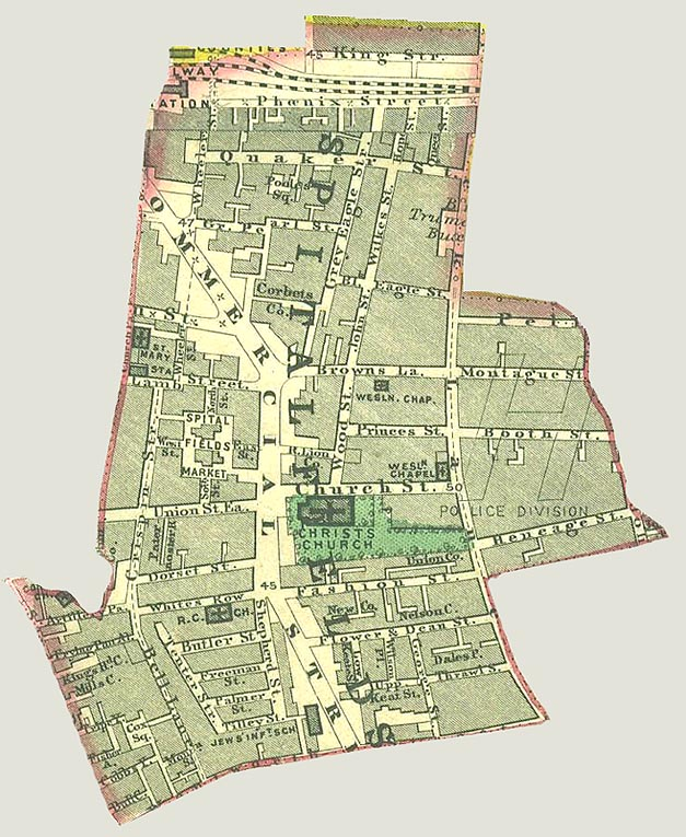 A map of the parish of Spitalfields c.1885 which has been cut out and scanned.